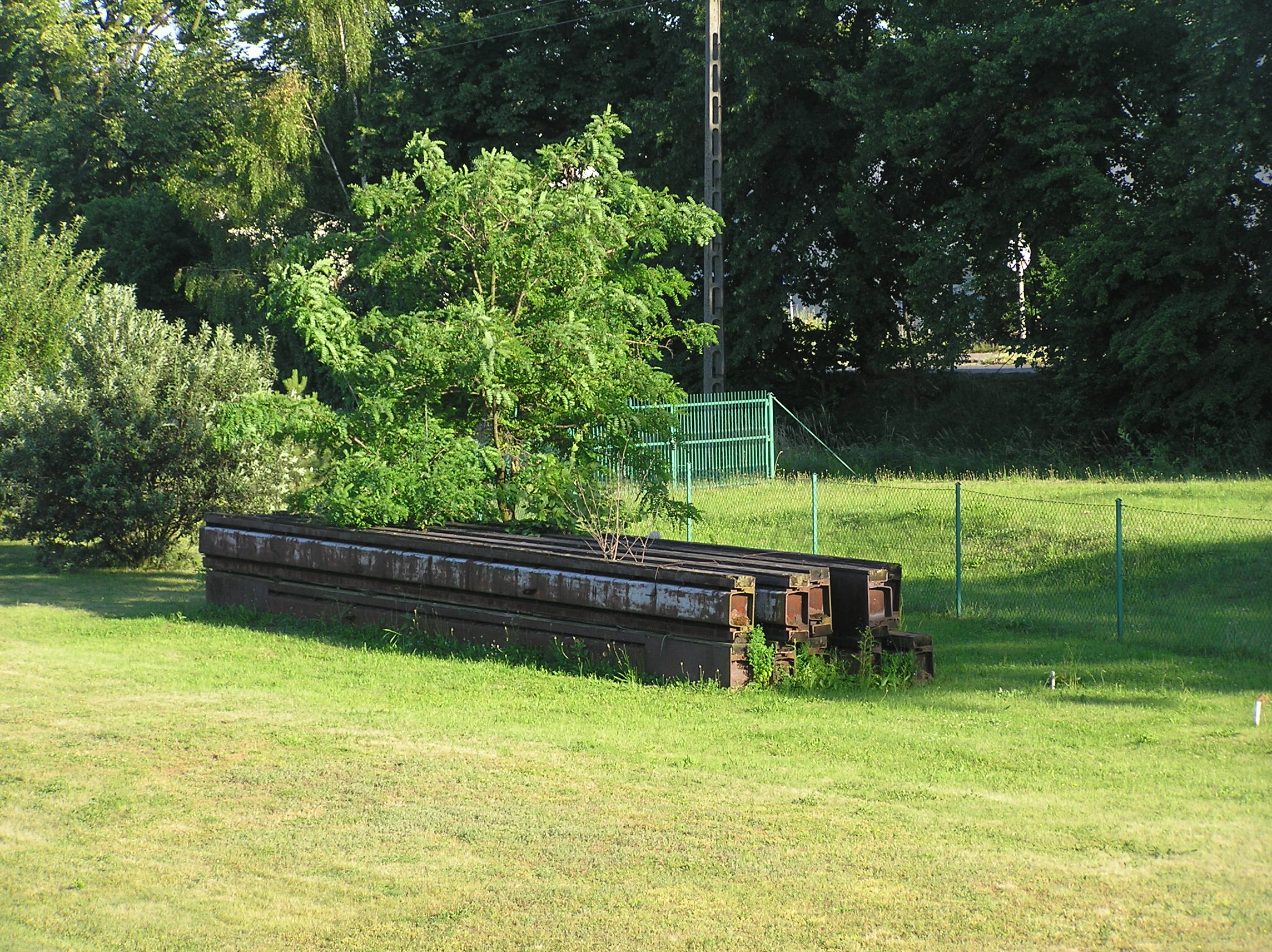 Oława II Lock